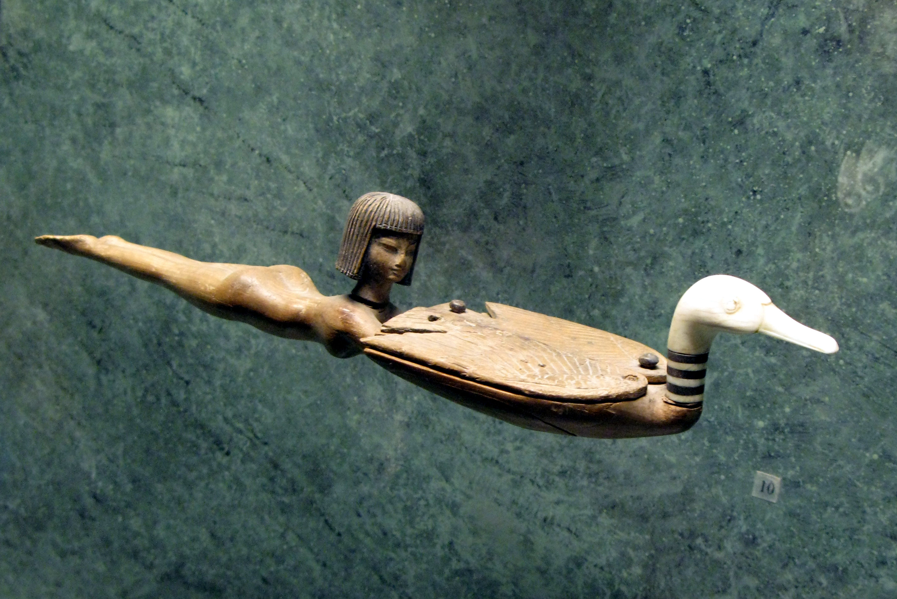 ArtistUnknownDescription Cosmetics spoon feature a swimming woman holding a duck [1] Ivory and wood Dimensions29.30 cm long, 5.50 cm wideCurrent location (Inventory)Louvre Museum Native nameMusée du LouvreLocationParisCoordinates48° 51′ 37″ N, 2° 20′ 15″ E Established1793Website control : Q19675 VIAF: 257711507 ISNI: 0000 0001 2260 177X ULAN: 500125189 LCCN: n80020283 NLA: 35912436 WorldCat Sully, Rez-de-chaussée, La parure, Salle 9, Vitrine 3 : CuillersAccession numberE 218Source/PhotographerRama Cosmetics spoon feature a swimming woman holding a duck [1] Ivory and wood